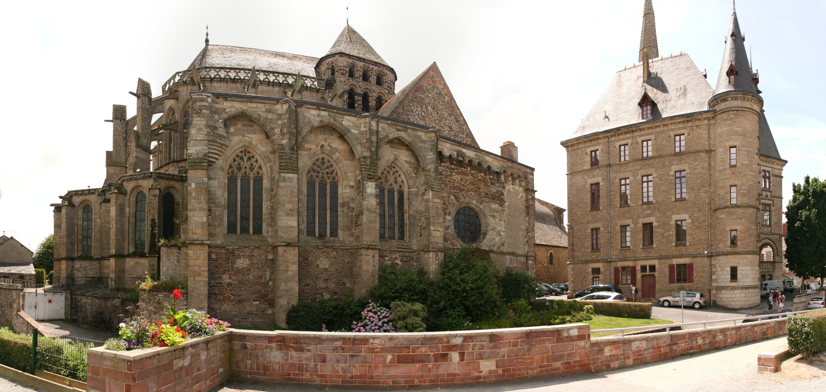 Church of the abbey Saint-Sauveur and town hall of Redon, Brittany, France. Cylindrical projection.